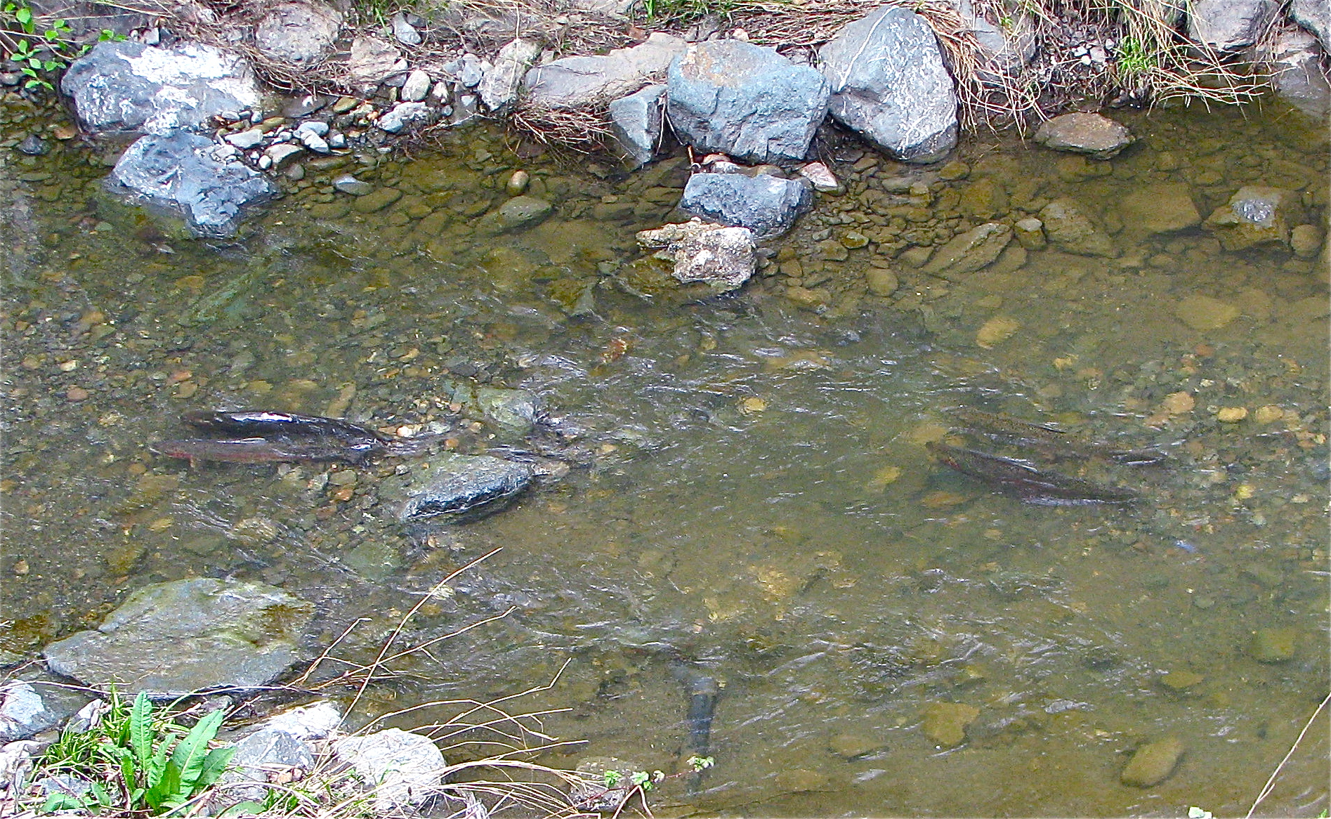 Two pairs of adult Steelhead trout (Oncorhynchus mykiss) and redds in Stevens Creek, spawning in lower reaches of the creek, Mountain View, California.